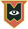 Divisional patch (All Seeing Eye) for the British Guards Division.